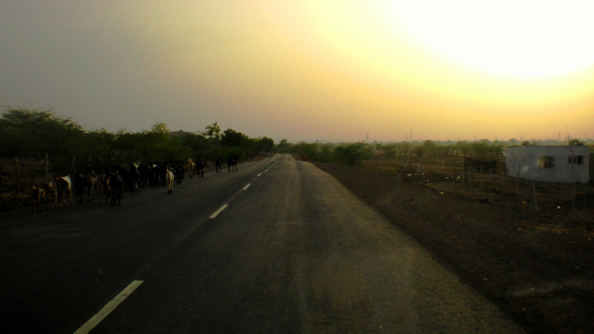 The road through the villages near Khargone